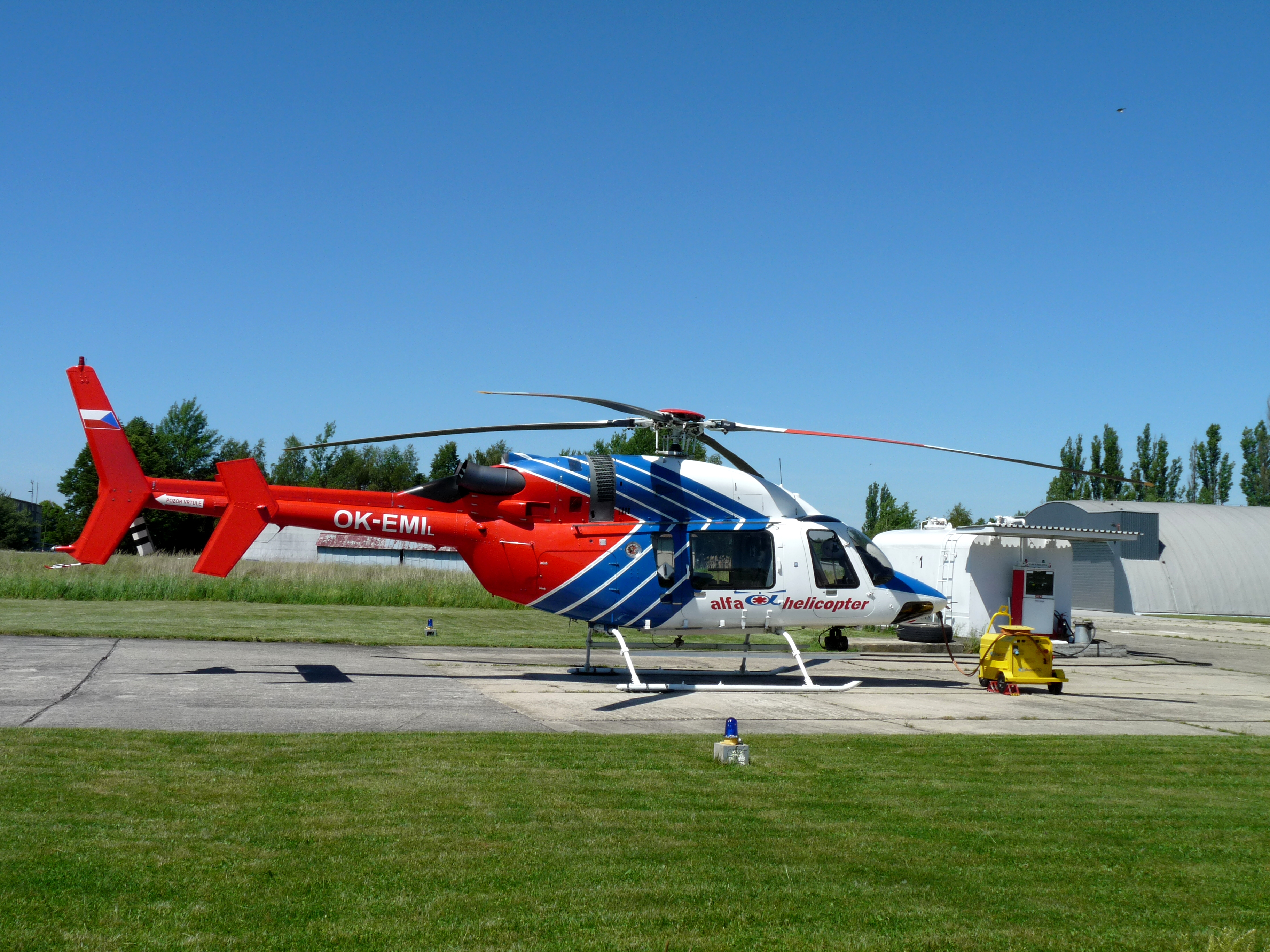 Rescue helicopter Bell 427 (OK-EMI) at the air ambulance station located in the airport in Hosín, České Budějovice District, South Bohemian Region, Czech Republic